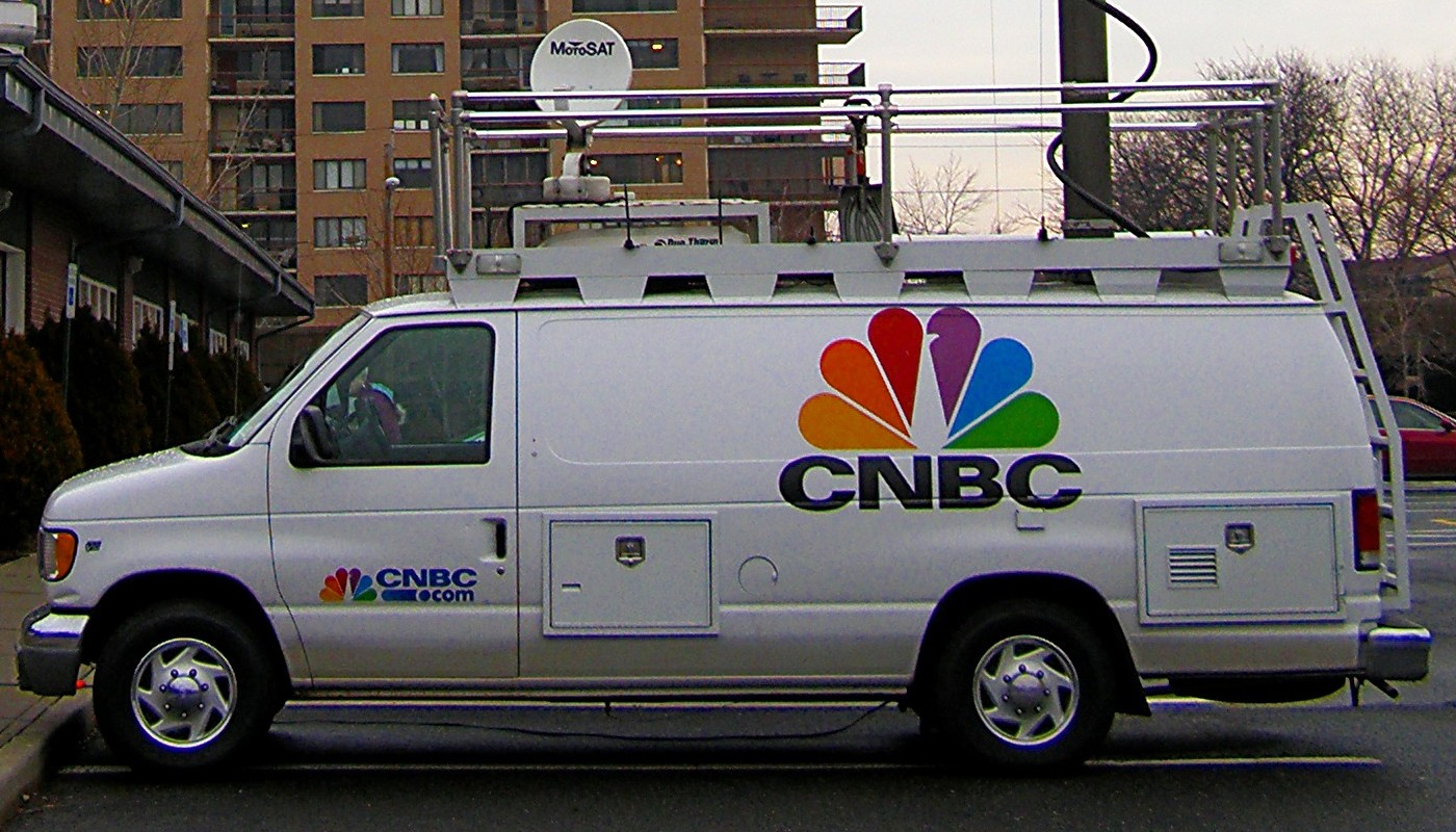 CNBC ENG TruckNew Jersey 2008 Primary in Edgewater NJ